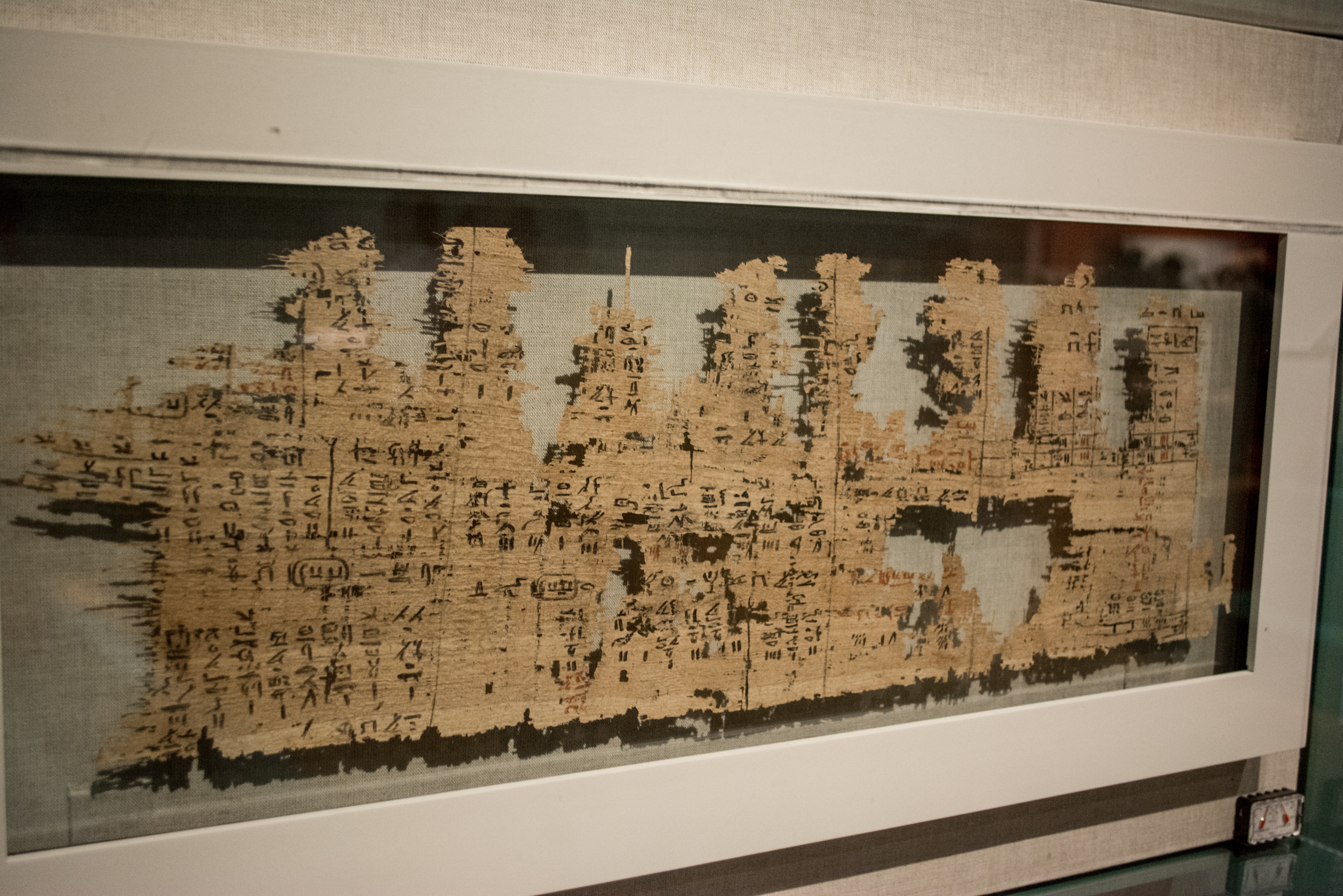 The "Abusir papyrus", created in Egypt about 2454 to 2311 BC. Found in Abusir. This papyrus is one of the most important administative documents yet found. It describes daily life in a funerary temple during the reign of Pharaoh Neferirkare. It describes administrative procedures, financial procedures, a list of priests' duties, a calendar of rituals and ceremonies, a list of offerings to be made, reports of temple income, and a list of temple objects (including notations on which were damaged or missing).